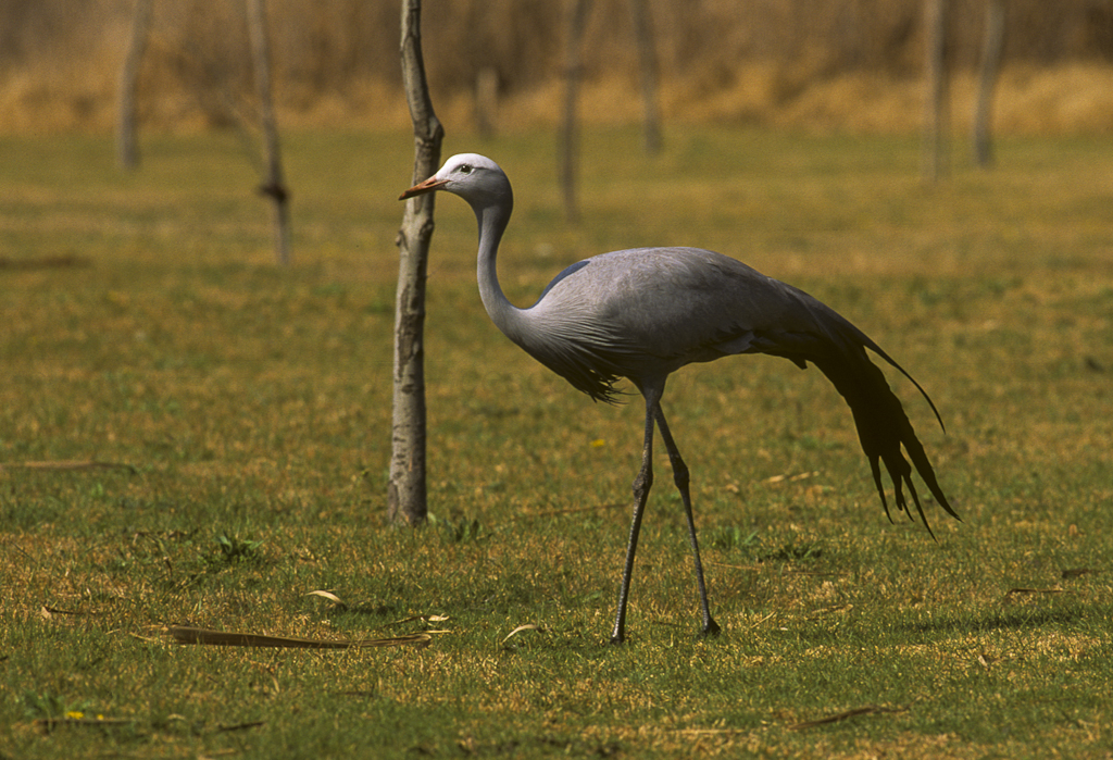 Blue Crane - Rondebult - South-Africa 97 0006